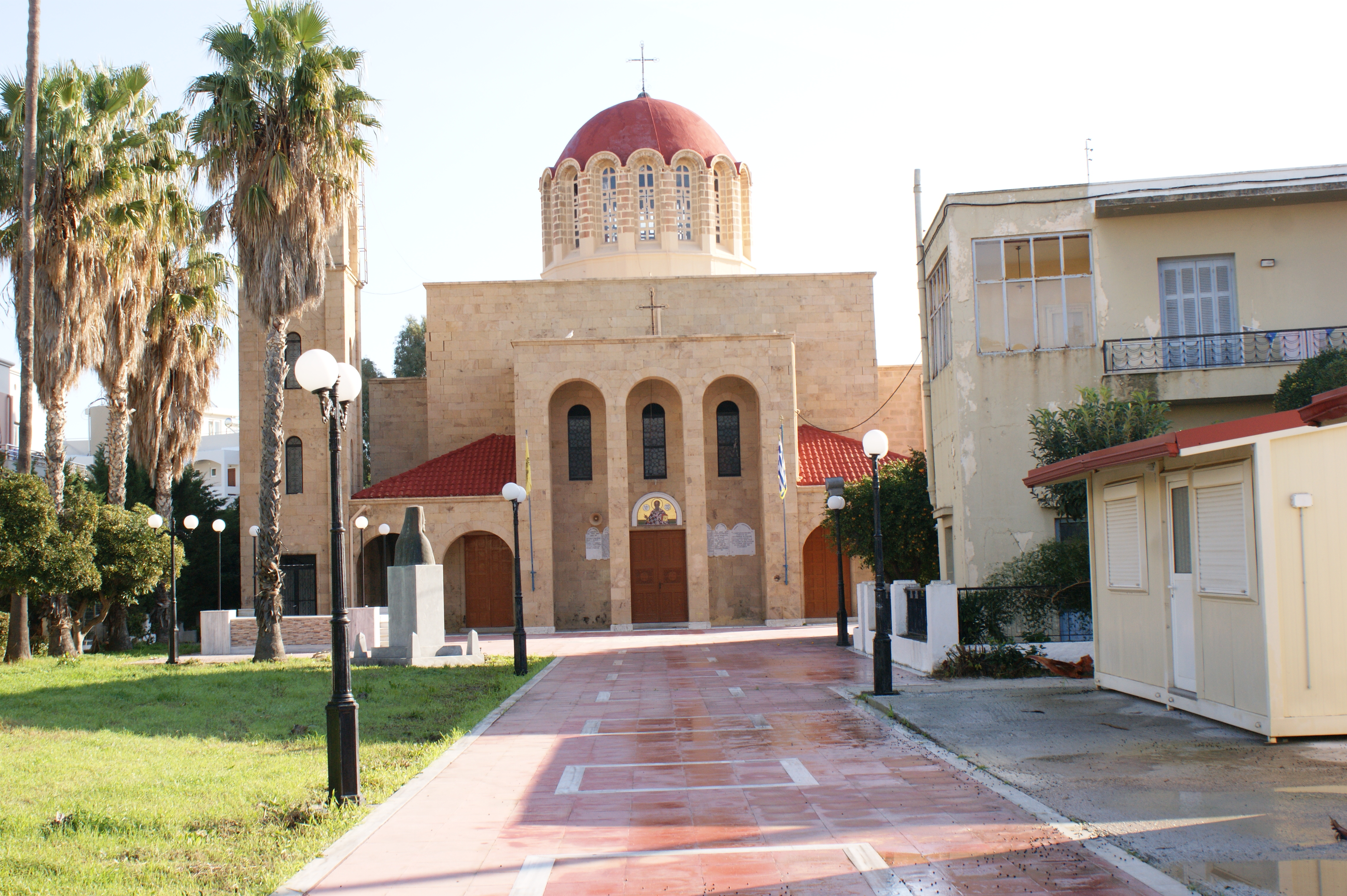 St. Nicholas Cathedral (Ιερός Μητροπολιτικός Ναός Αγίου Νικολάου) in the city of Kos on the Greek island of Kos.